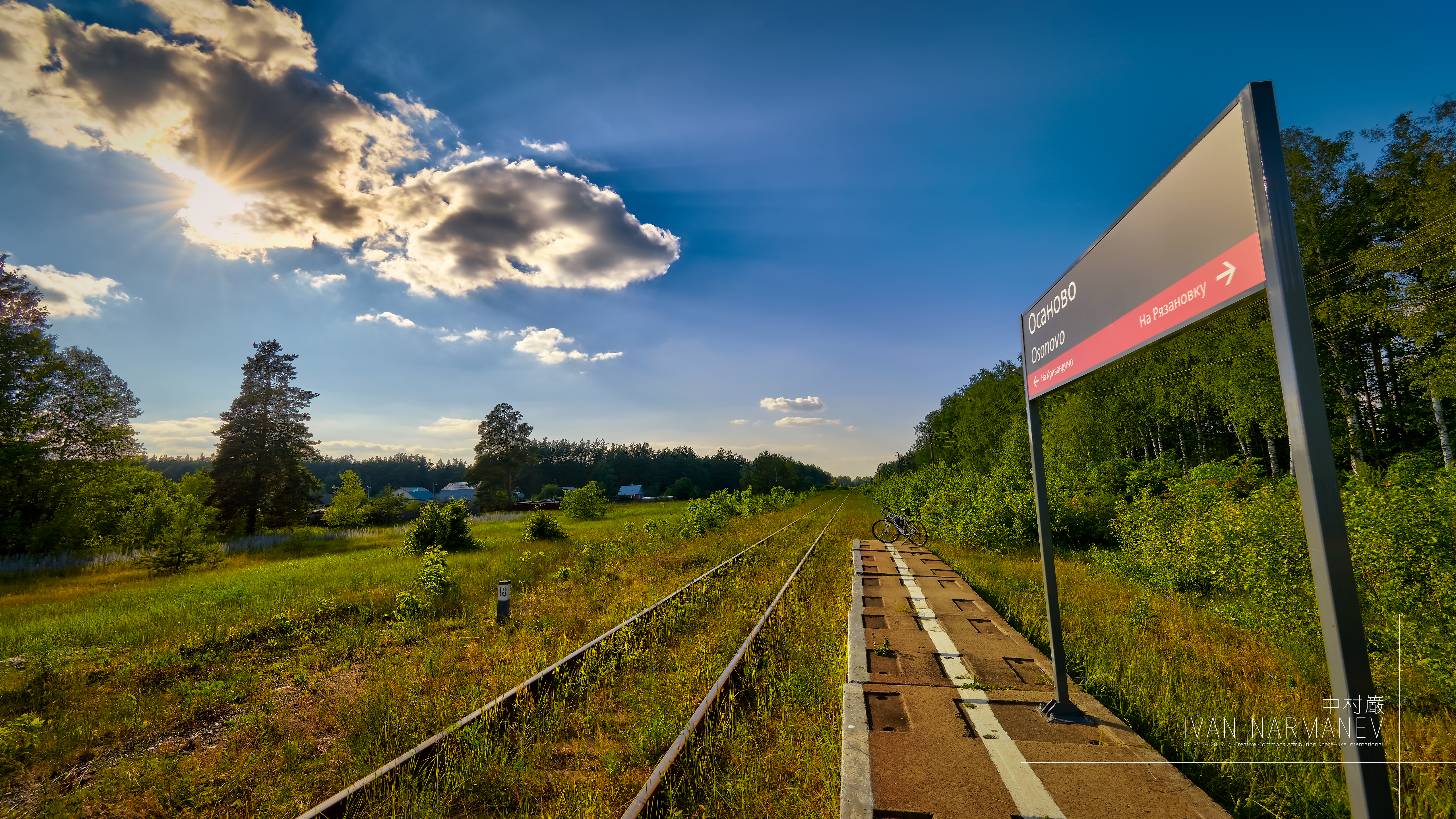 Osanovo train stop at Krivandino - Ryazanovka line. Camera facing north direction to Krivandino. Sunday evening.